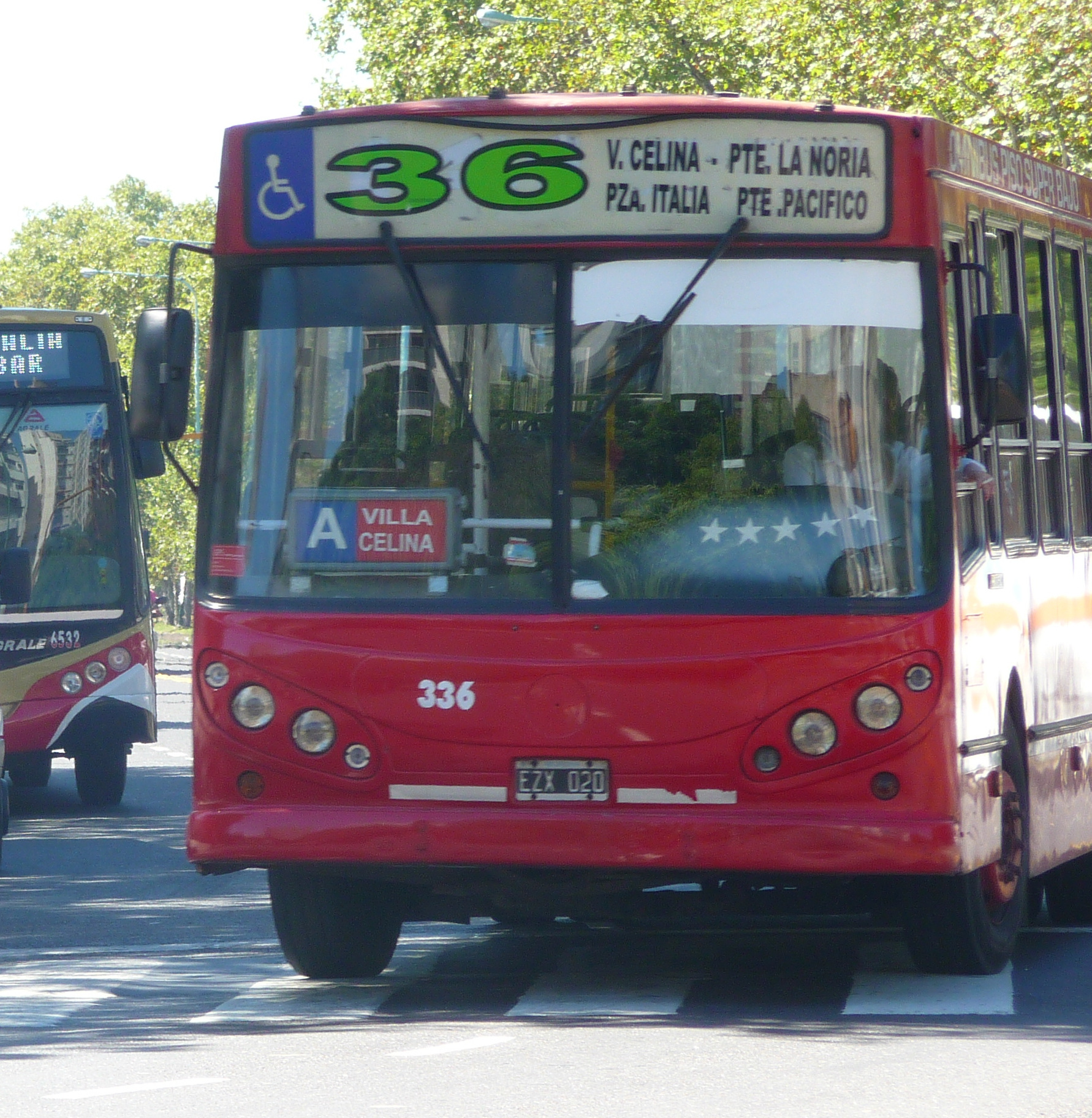 La Favorita bus (reg. EZX 020, #336) with unknown chassis in Buenos Aires, Argentina. Colectivo, line 36, Empresa de Transportes Mariano Moreno S.A. (Grupo PLAZA) operator.